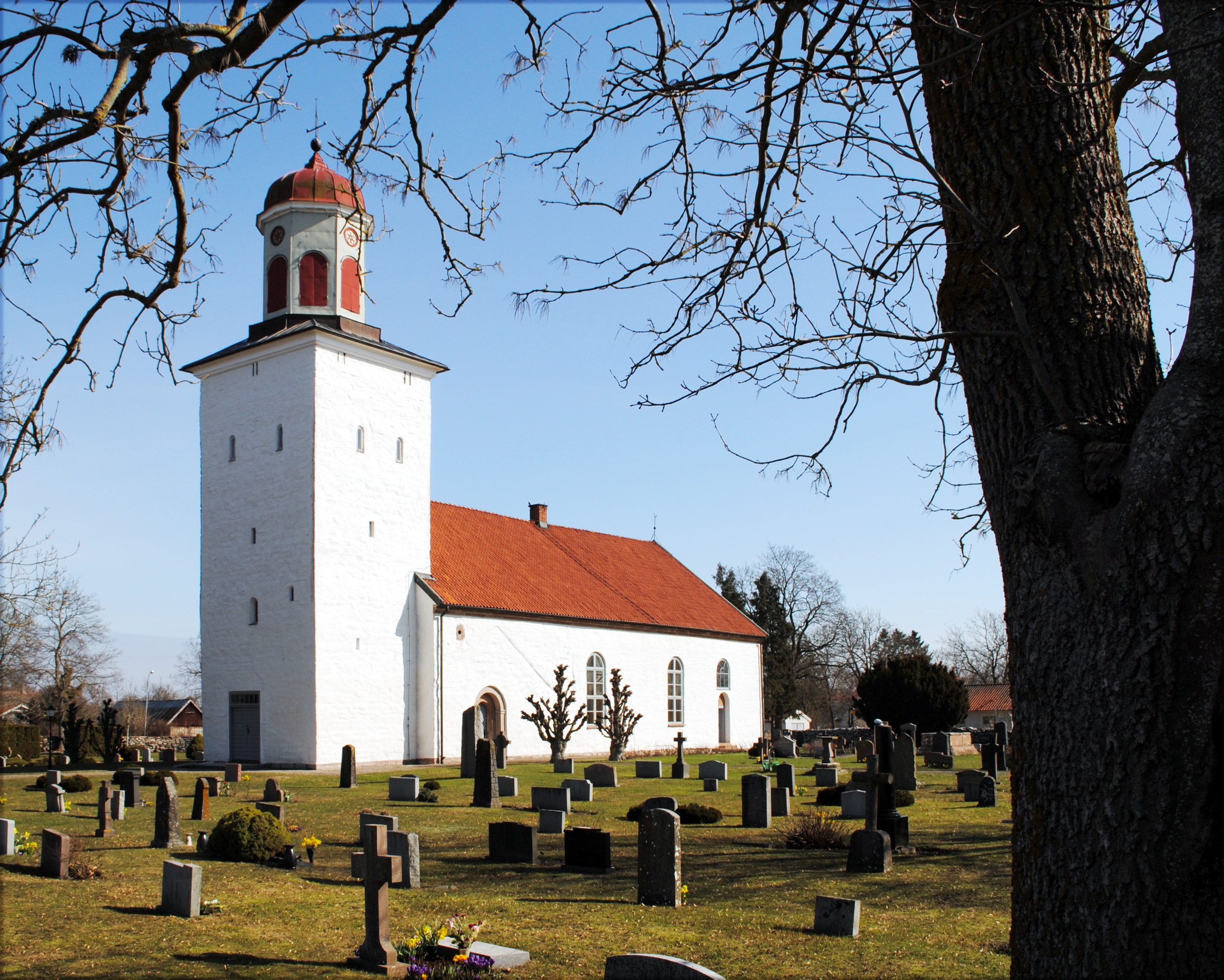 Räpplinge church, Öland.